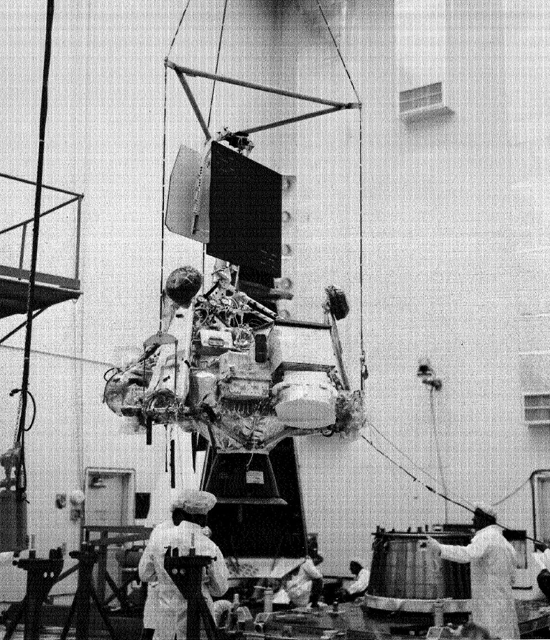 Surveyor V mating to adaptor in ESF (Explosive Safe Facility)